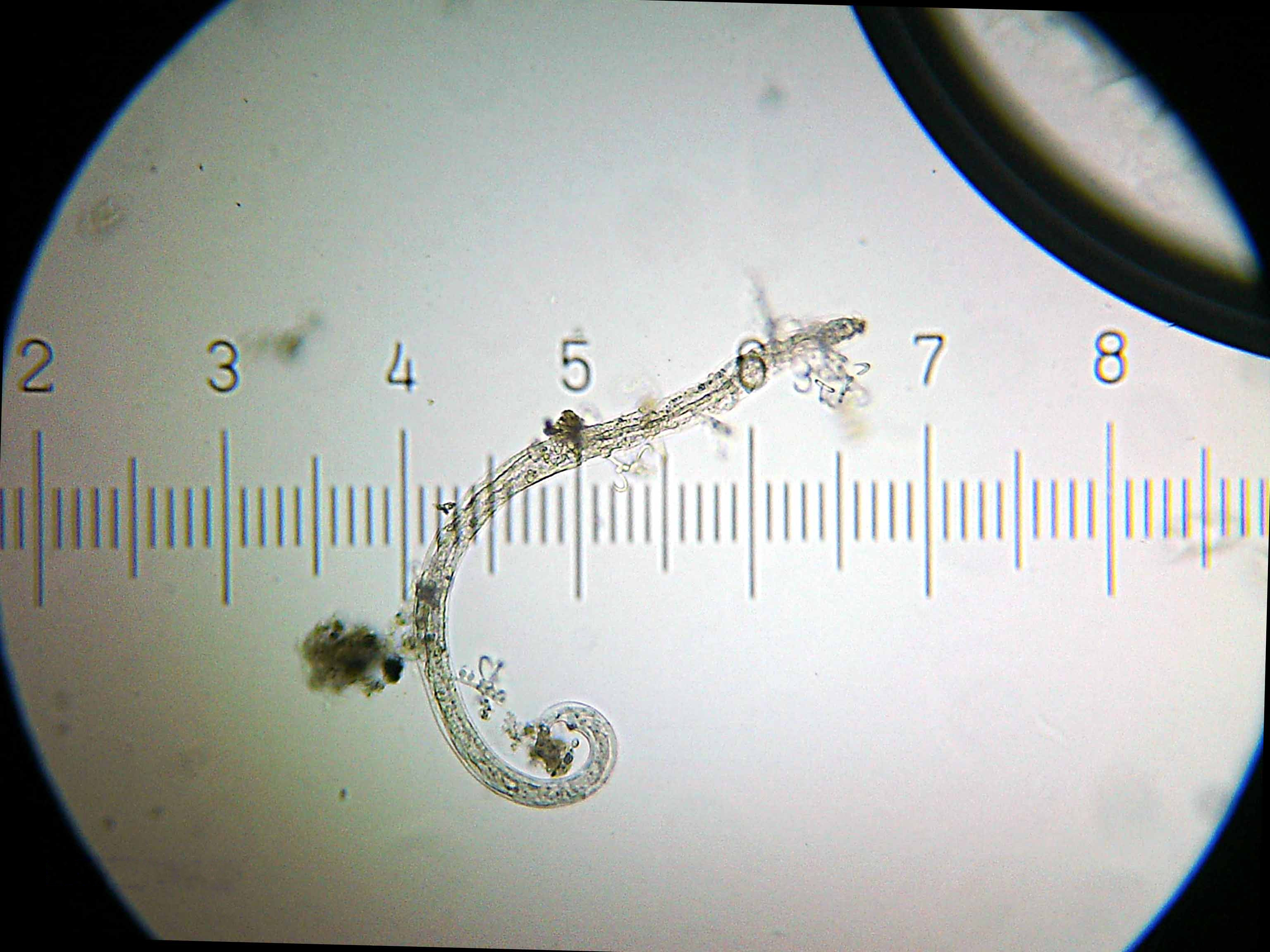 A dead nematode with fungus growing out of it. I sent this image to an apparent expert on nematophagous fungi, and he identified it as Harposporium anguillulae. See this page on the Nematophagous Fungi Guide. This image was taken using my 10× objective and 15× eyepiece. The numbered ticks on the scale are 122 microns apart. The scale of the full-sized version of this image is such that each pixel represents an area that is a 0.282-micron square.